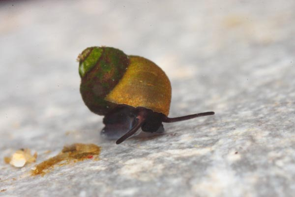 Sadleriana fluminensis, San Canzian d´ Isonzo, Friuli, Italy